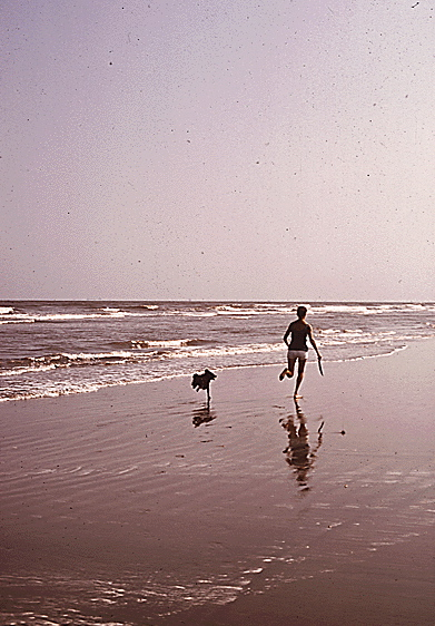 BEACH SCENE, 09/1972. Grand Isle, Jefferson Parish, Louisiana. Person and dog running along the surf seen from behind.